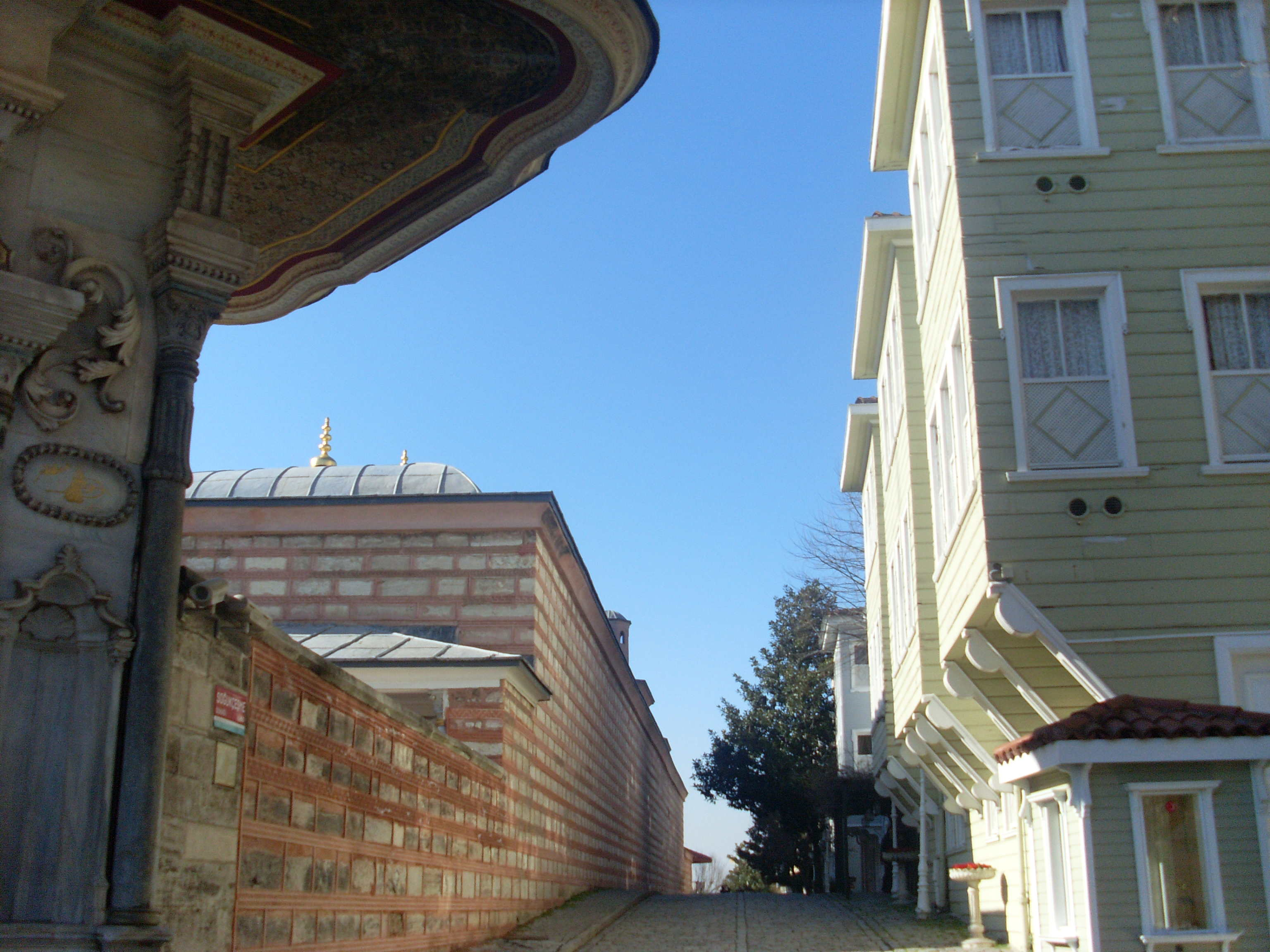 İstanbul - Soğukçeşme Sokağı r2 - Mar 2013